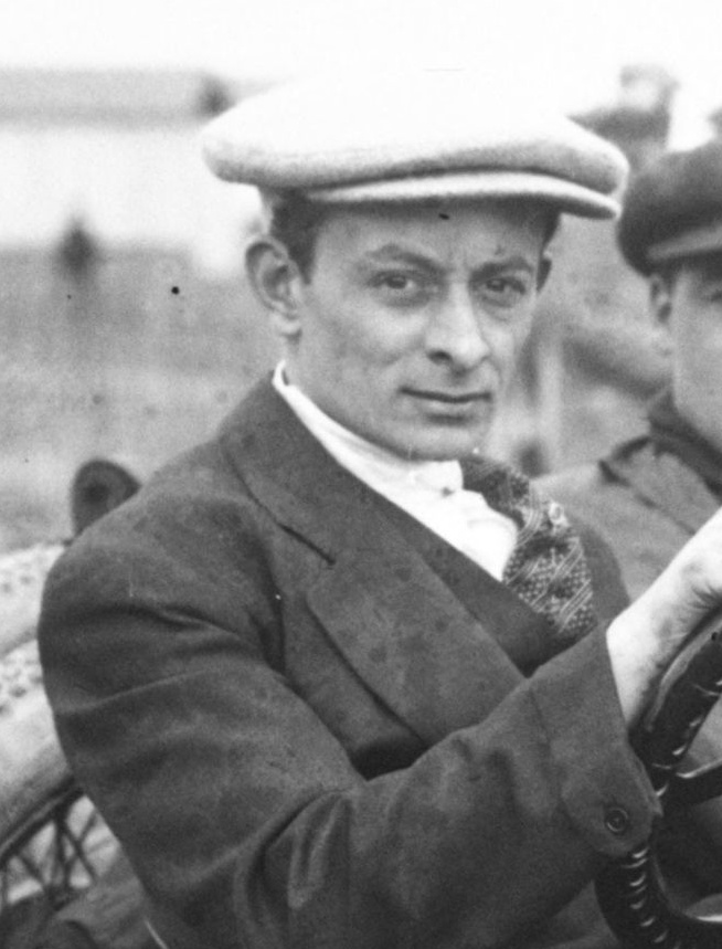 Cyril de Vère in his Côte at the 1912 French Grand Prix at Dieppe.